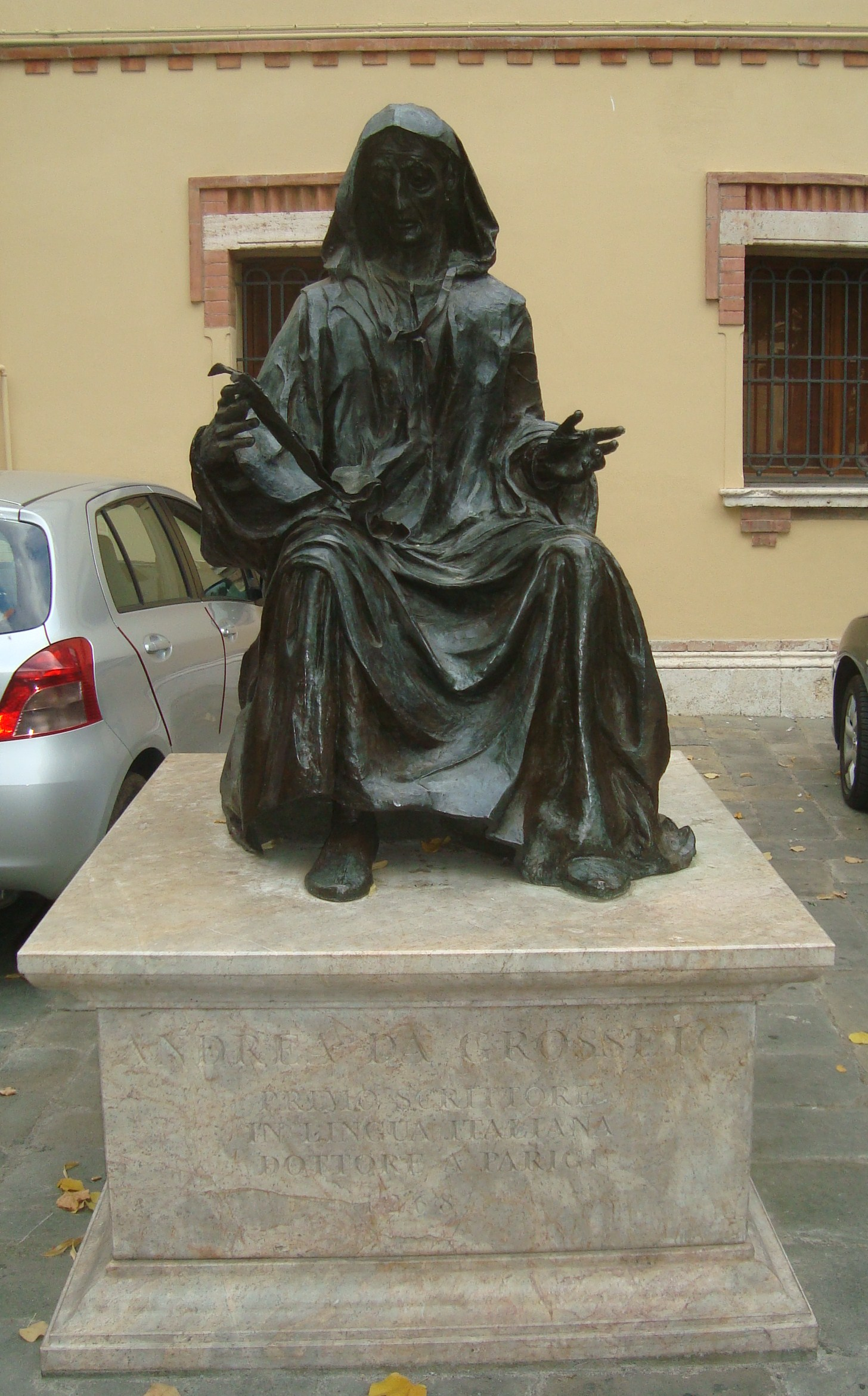 Andrea da Grosseto Statue